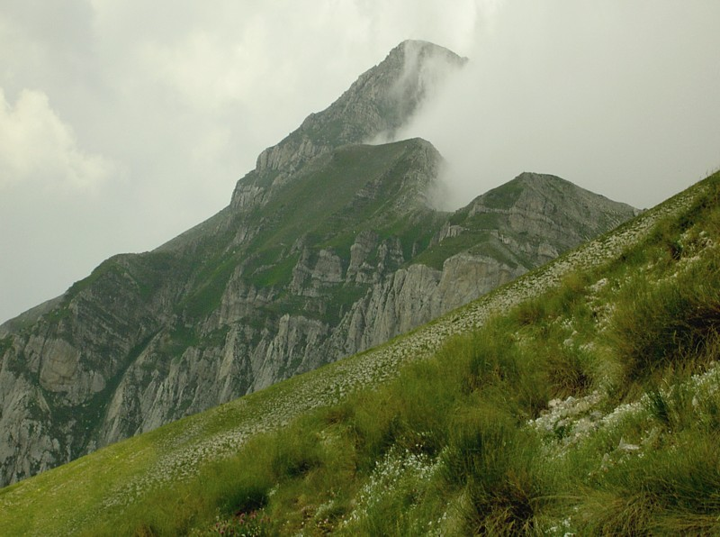 Pizzo Cefalone Picture taken by user Idéfix , july 2005